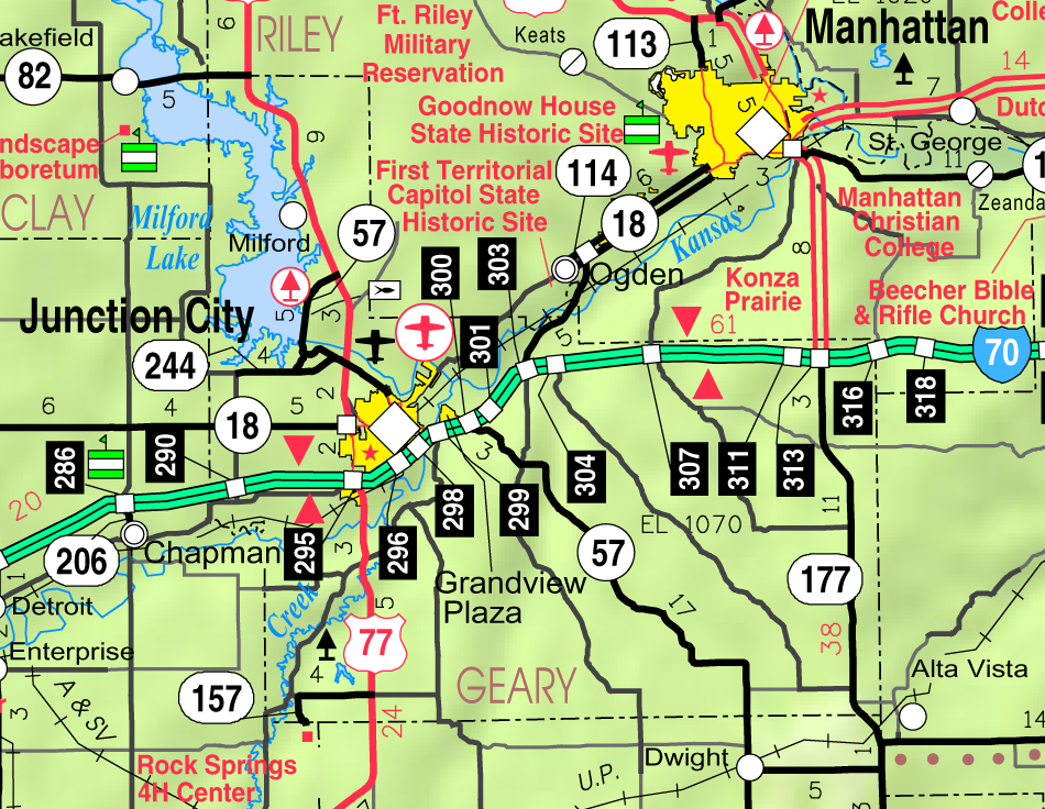 This map of Geary County, Kansas, USA, is copied at a resolution of 300 pixels/inch from the original PDF file.